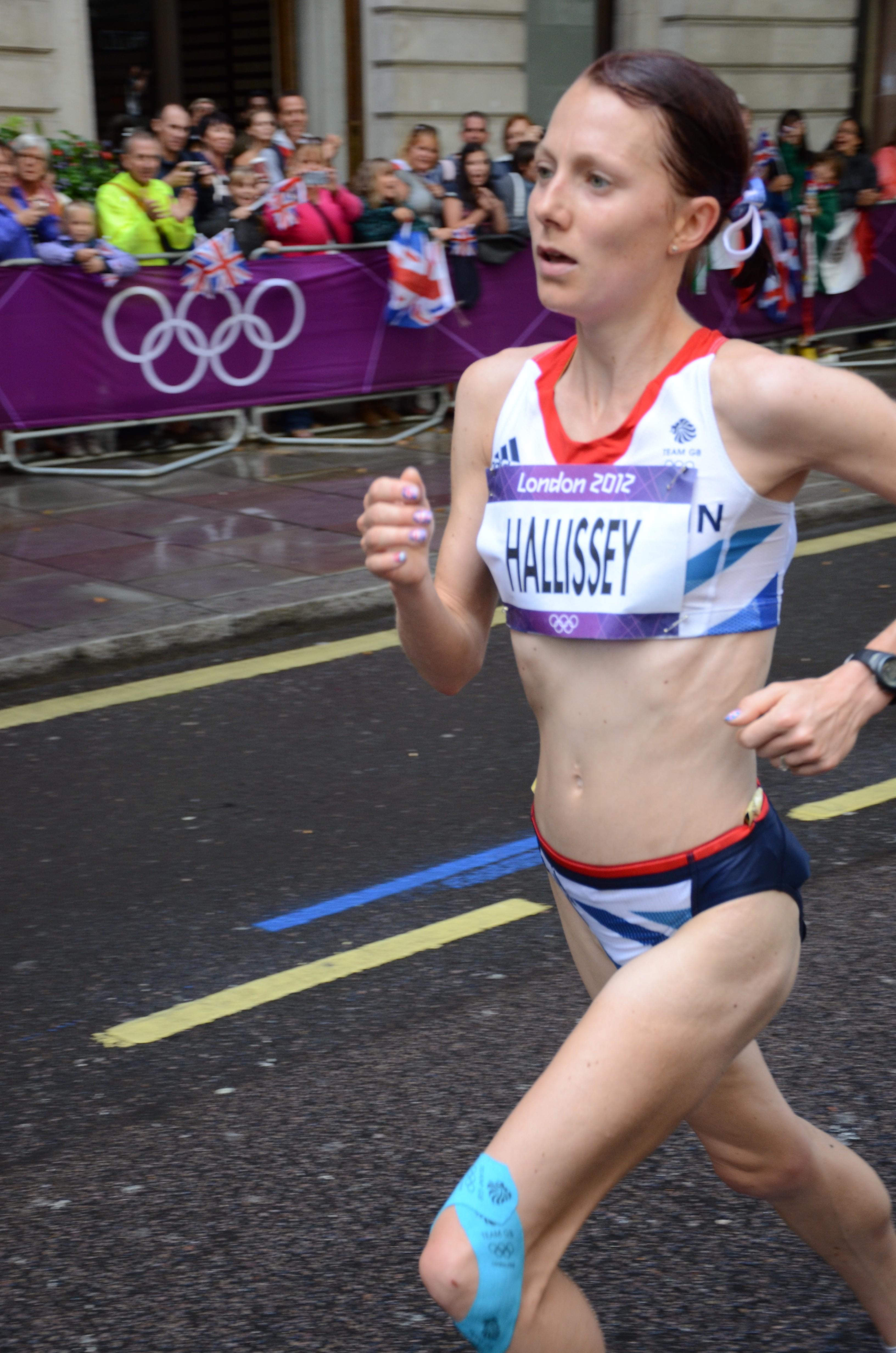 Claire Hallissey (GBR) in the marathon (w) at the Olympic Games 2012